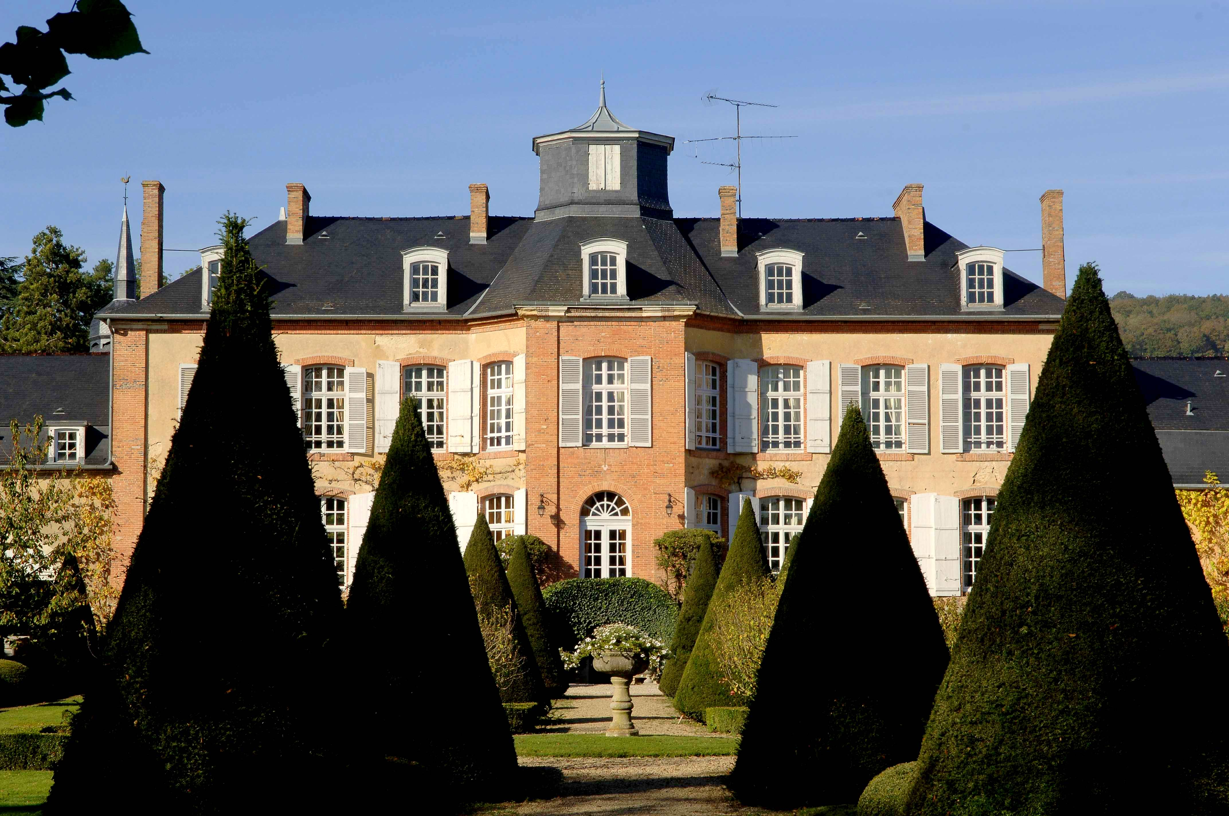 Le Chateau les Aulnois , in the heart of Champagne, close to Epernay. is a Wonderfull XVIIIth century Mansion.